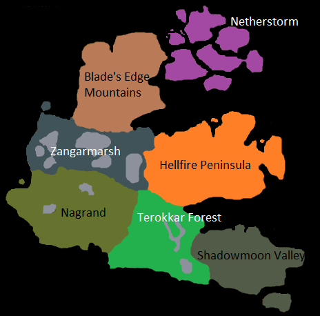 Outland world of warcraftDansk: Outland world of warcraft